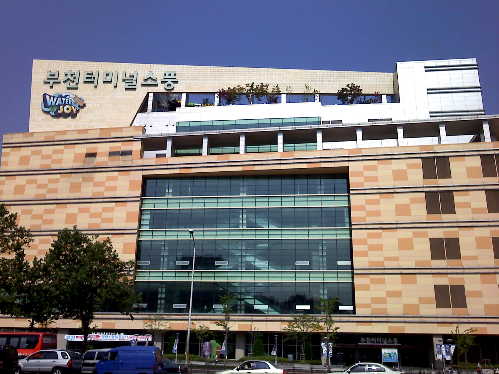 Bucheon Terminal Sopoooong